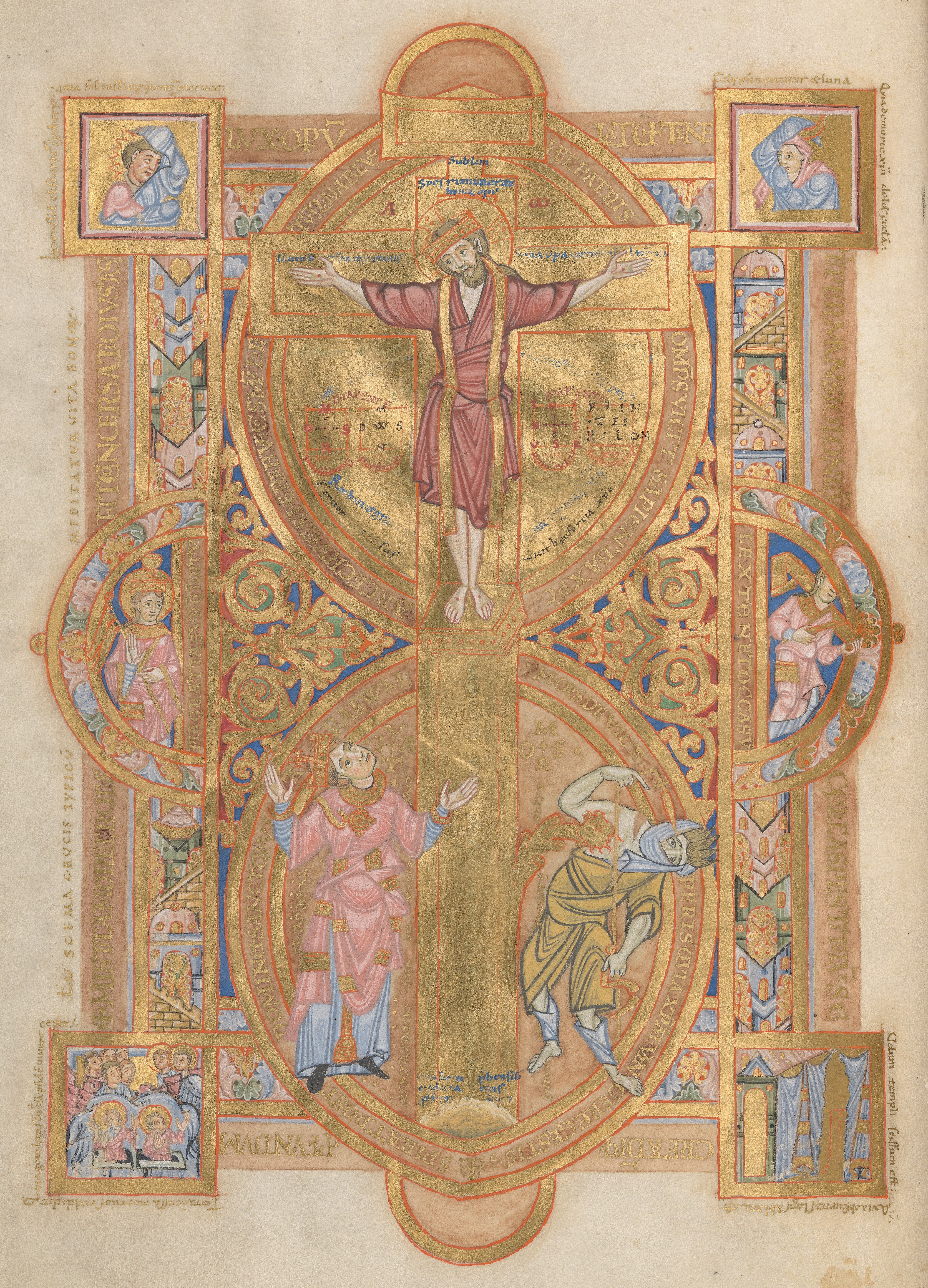 This is a frontispiece to the Uta Codex evangeliary. Jesus on the Cross occupies the top of the design. Eight other images present the Christian significance of the Crucifixion: the triumph of life over death. Below the Crucifixion are personifications of Life (Vita) on the right-hand side of Jesus and Death (Mors) on the other side. A crowned Life looks up to a crowned Jesus, who returns the gaze. Life's orant posture also echoes that of Christ. Death is bent, falling away from God, his face shrouded and his spear broken. He is attacked by a branch sprouting from the Cross, suggesting the Tree of Life. In the left-hand semicircle is Ecclesia, also crowned with raised hand and facing the Cross, while the right-hand semicircle shows Synagoga, with a scroll (the Law) and knife (of circumcision), turned away from God and blinded by the border. The corner images are events connected with the Crucifixion: The upper-left has a personification of the sun (Sol), while the upper-right shows the moon (Luna). The lower-left shows resurrected saints, (who echo Life's posture), while in the lower-right the Temple veil is torn. Their significance is explained by the surrounding text: The Sun of Justice suffers on the cross; the Church mourns the death of Christ; Gentiles converted through faith began to live; the darkness of the Law was removed. As with the other elements of the schematic composition, the new life made possible by the Crucifixion is on the right-hand side of Christ and the Cross, while opposing but complementary subjects are on His left.